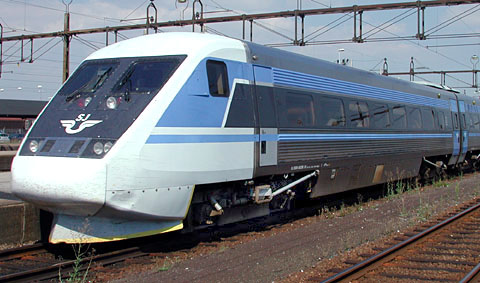 X2 is a high-speed train constructed by the Swedish train manufacturer ABB between the years 1989 and 1998. Note that the train on this picture is painted in its original colours. Since early 2005, Swedish X2-trains are painted in grey. This is a photography of a X2-train in grey.The train is photographed in Malmö by Fredrik Tellerup.